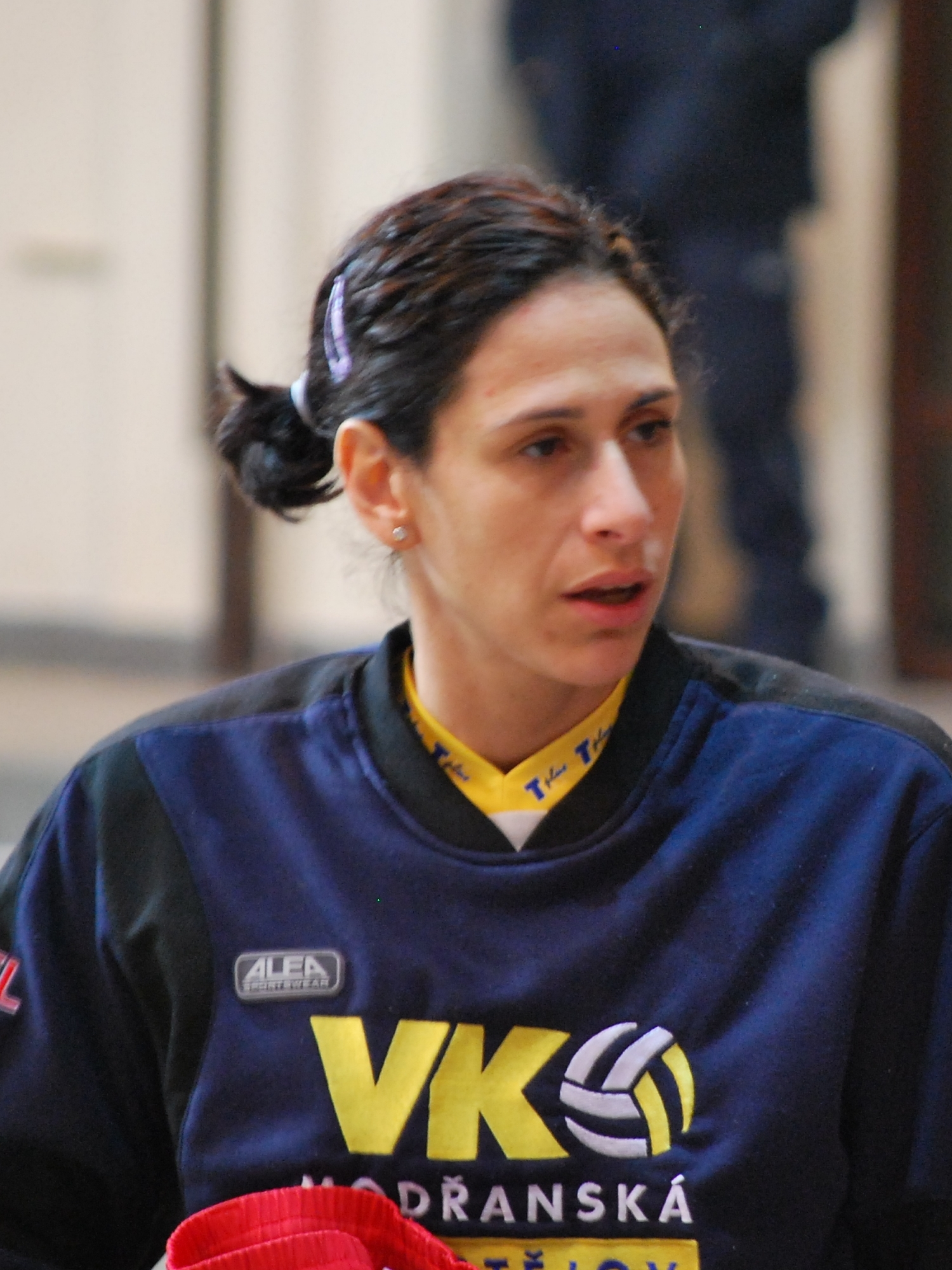 Tatiana Artmenko, volleyball player from Israel